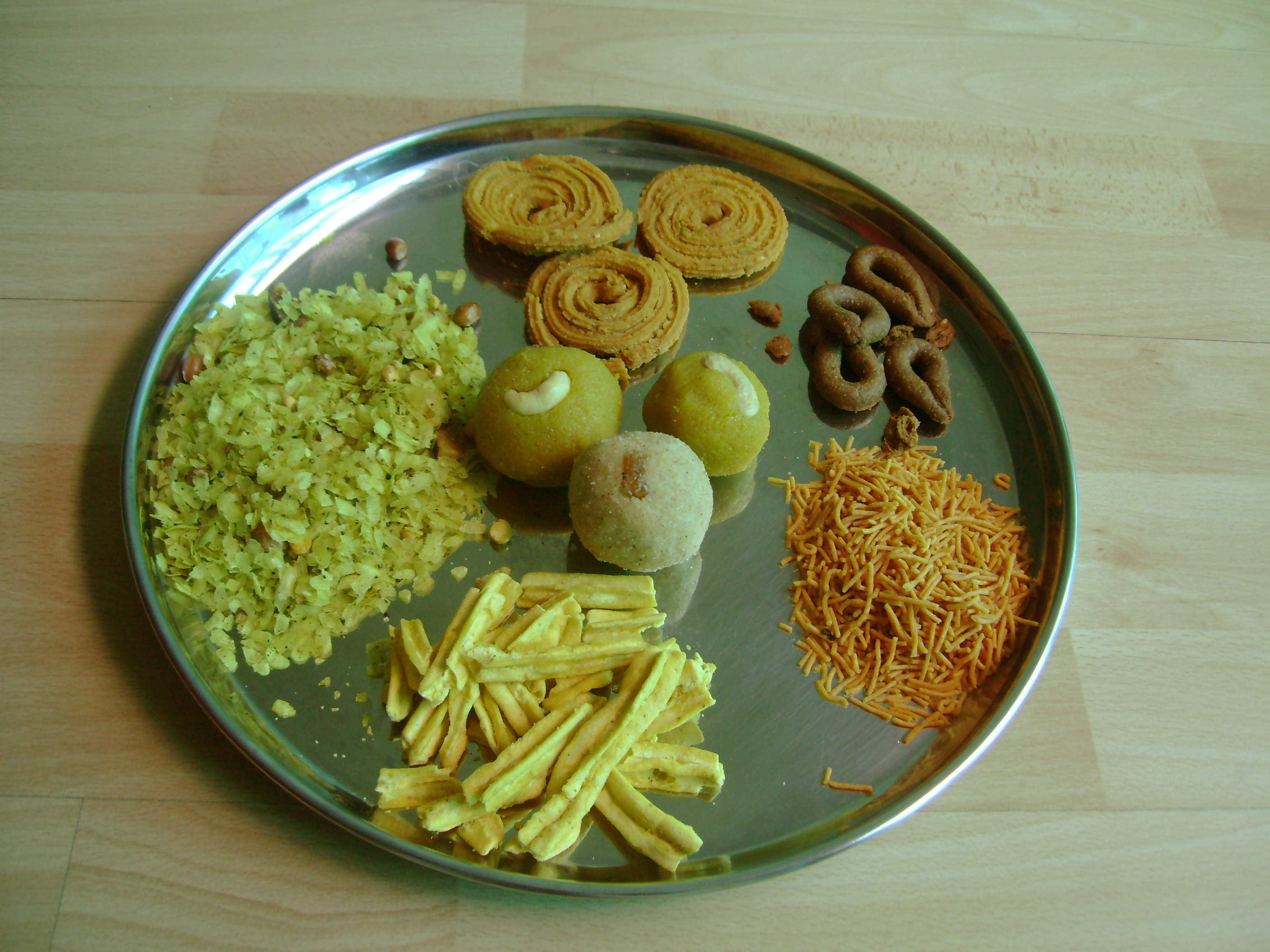 Photograph of 'Diwali Pharal' - dish comprising of 'Besanache Ladu', 'Rava Ladu', 'Chivada', 'Shev', 'Chakali', 'Kadaboli'.